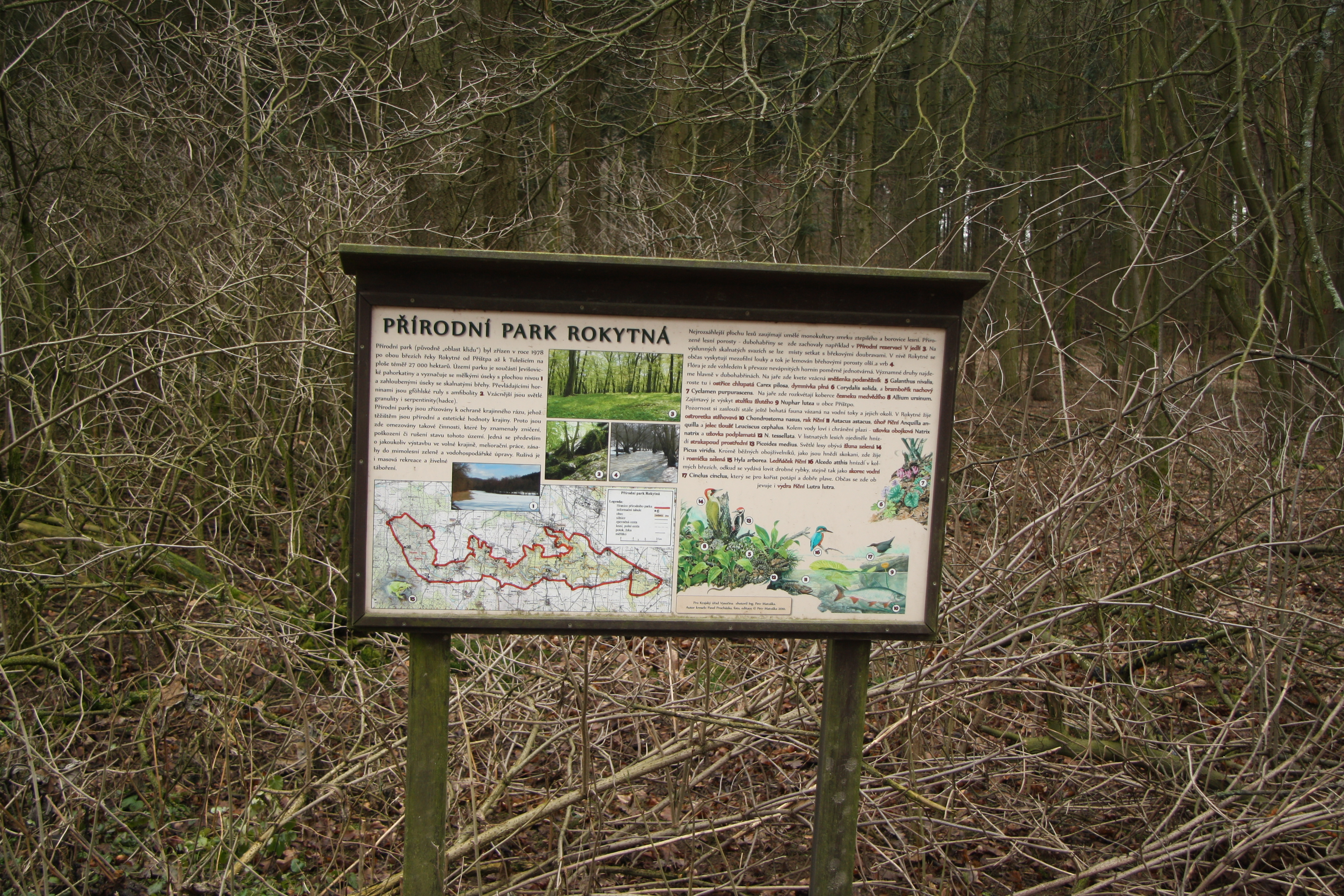 Sign of Nature park Rokytná near Radkovice village in Radkovice u Hrotovic, Třebíč District.